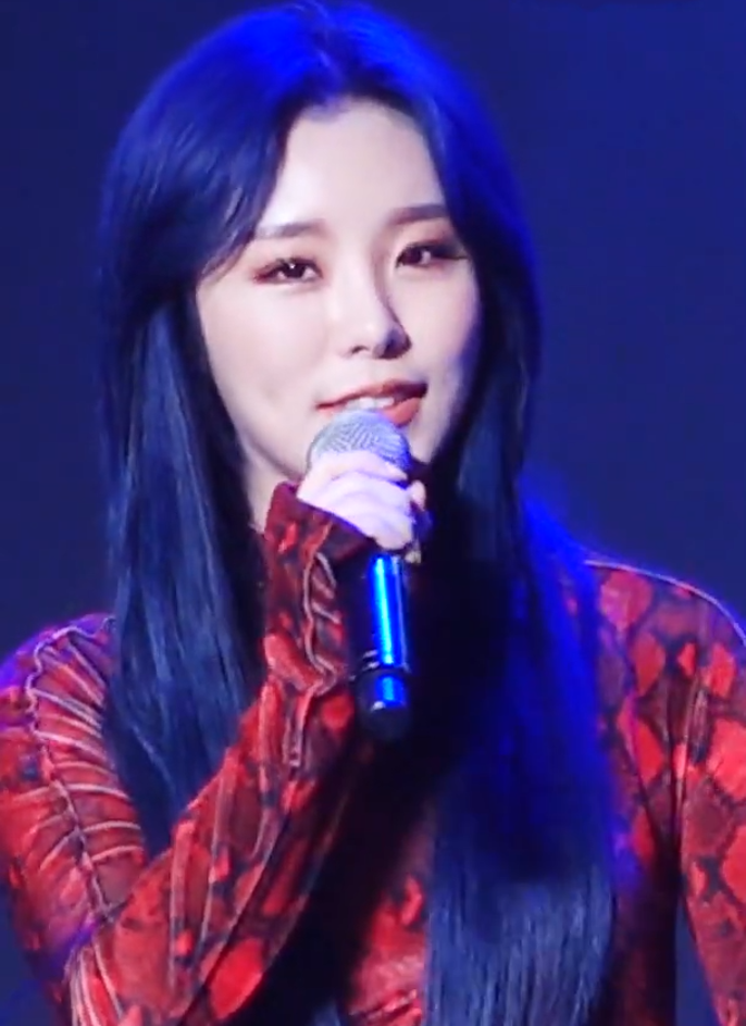 Jung Whee-in at a showcase on November 28, 2019.